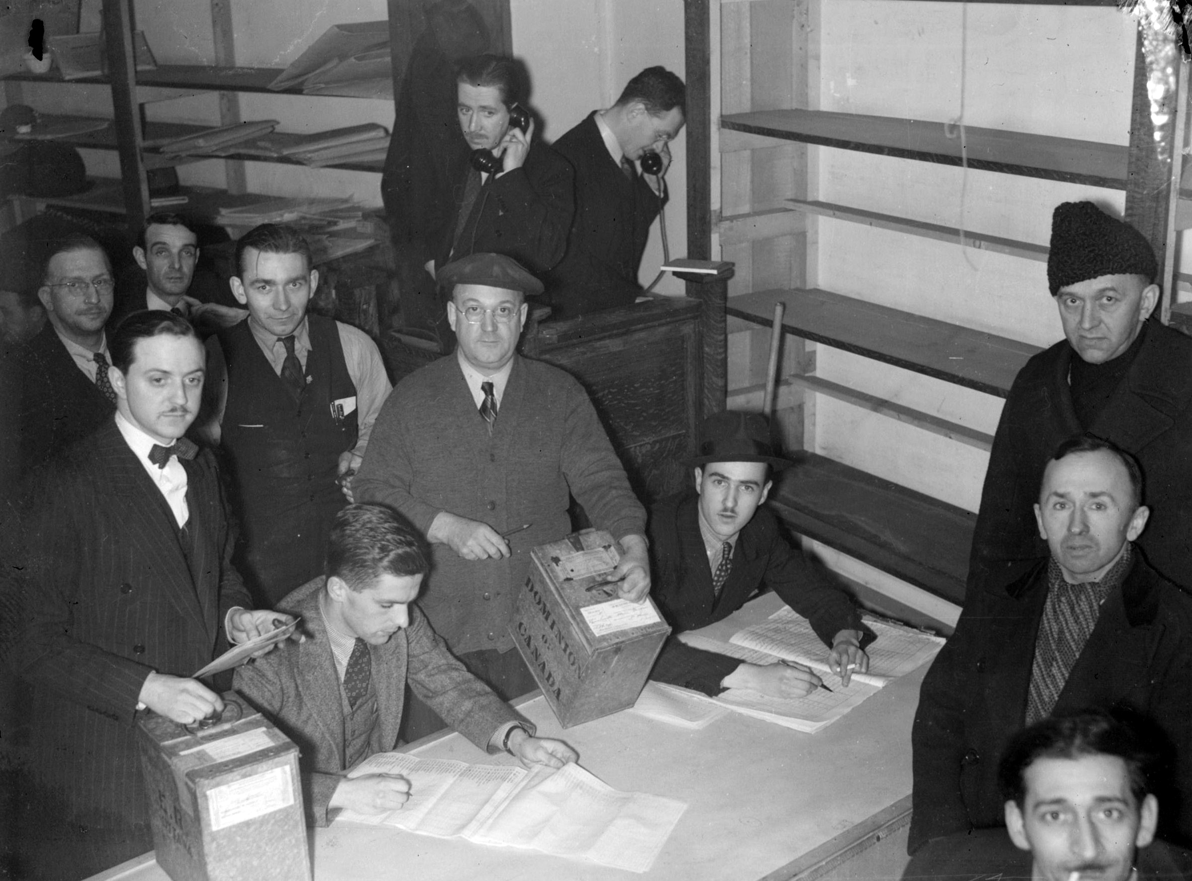 Counting the ballots in the 1938 by-election in the federal riding of St. Henri in Montreal, Quebec, Canada. Camillien Houde, running for the Conservatives, lost to Joseph Arsène Bonnier for the Liberals.